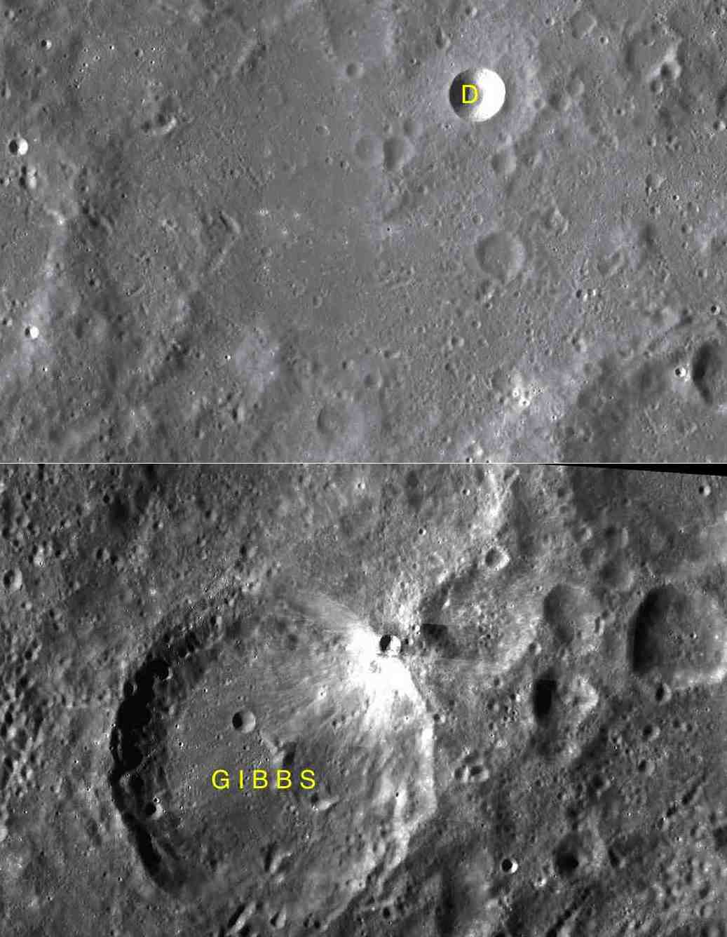 Parts of the charts LAC-81, LAC-99